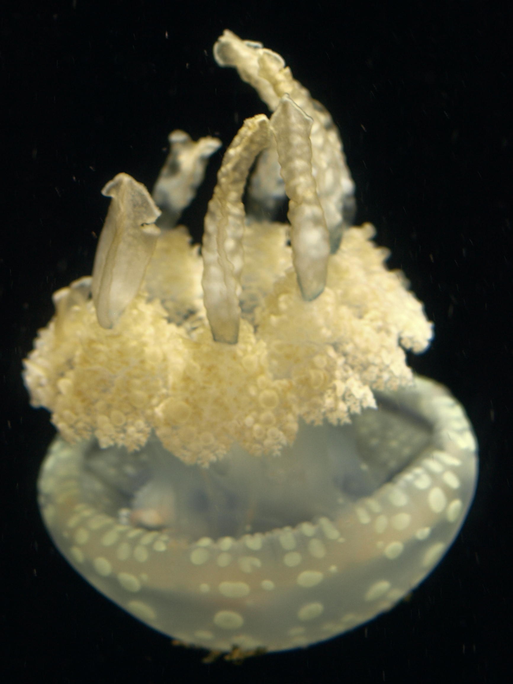 Spotted Lagoon Jelly National Aquarium, Baltimore April 5, 2011